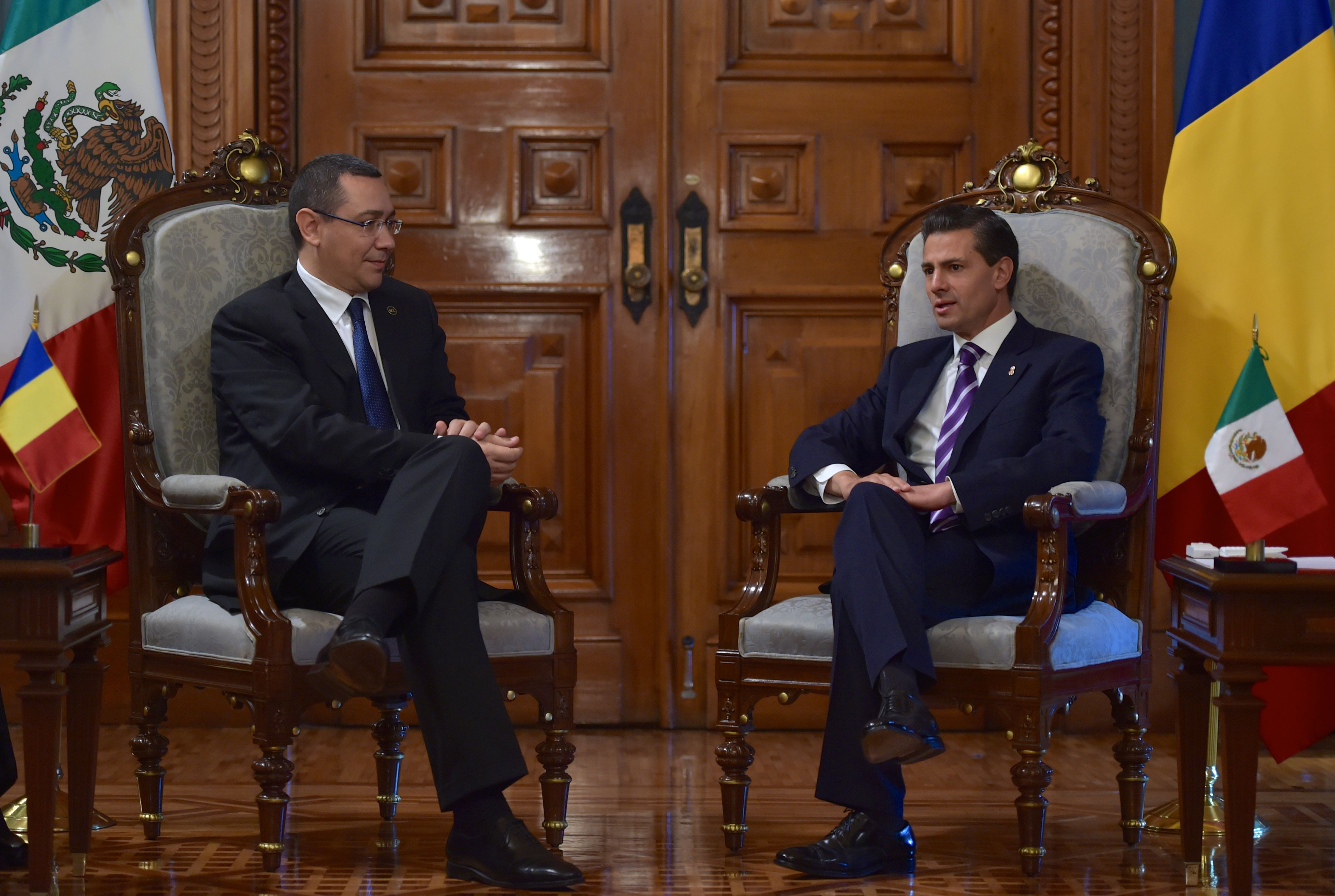 Reunión con el Primer Ministro de Rumania. Palacio Nacional, Ciudad de México. 28 de octubre de 2015.